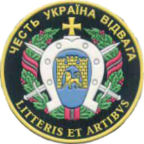 Sleeve patch for the Military University "Lvivska Politekhnika"